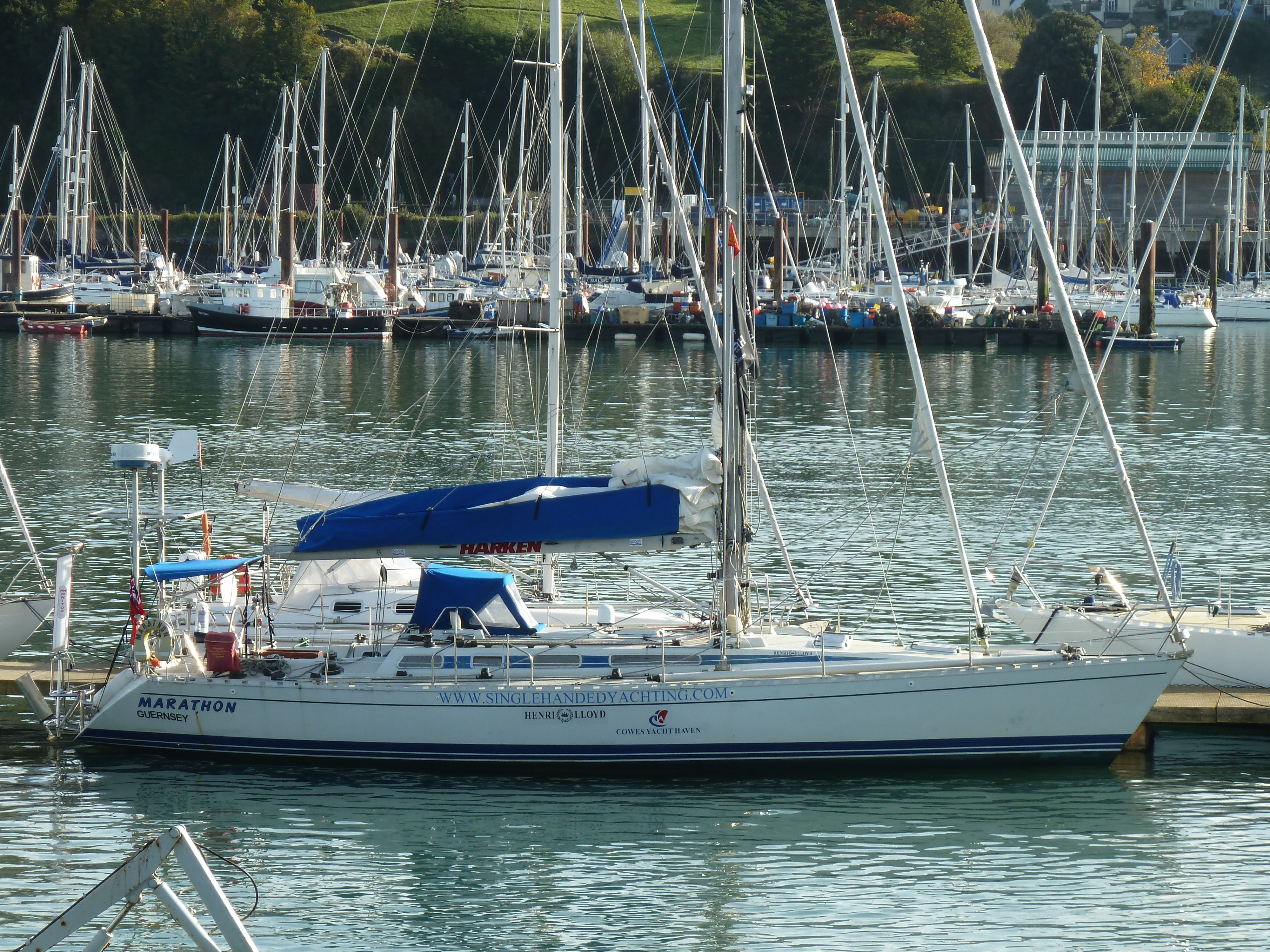 The yacht Marathon on the DC pontoon in Dartmouth, Devon, UK, where Keith White spent the night of 24th October in port preparatory to starting his solo round the world challenge.